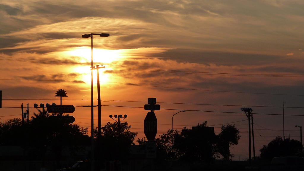 Sunset at the Sonic Drive-In, Deming NM, 2008